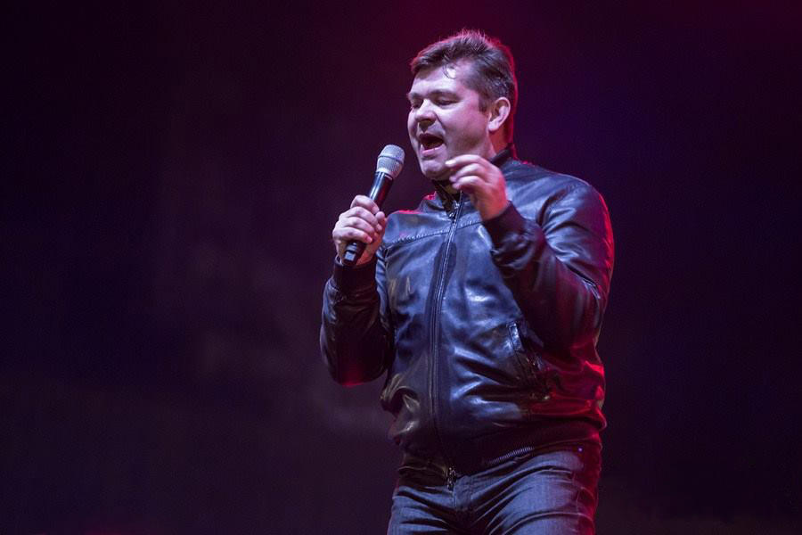 Polish singer Zenon Martyniuk, Tarnobrzeskie Juwenalia 2016